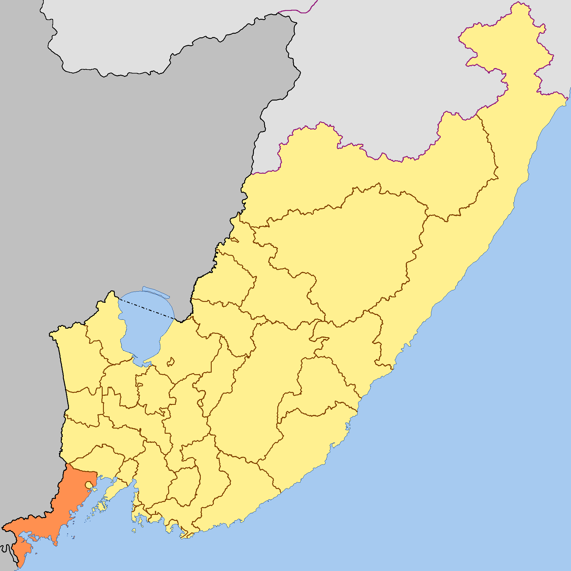 Khasansky district on the map of Primorsky kray